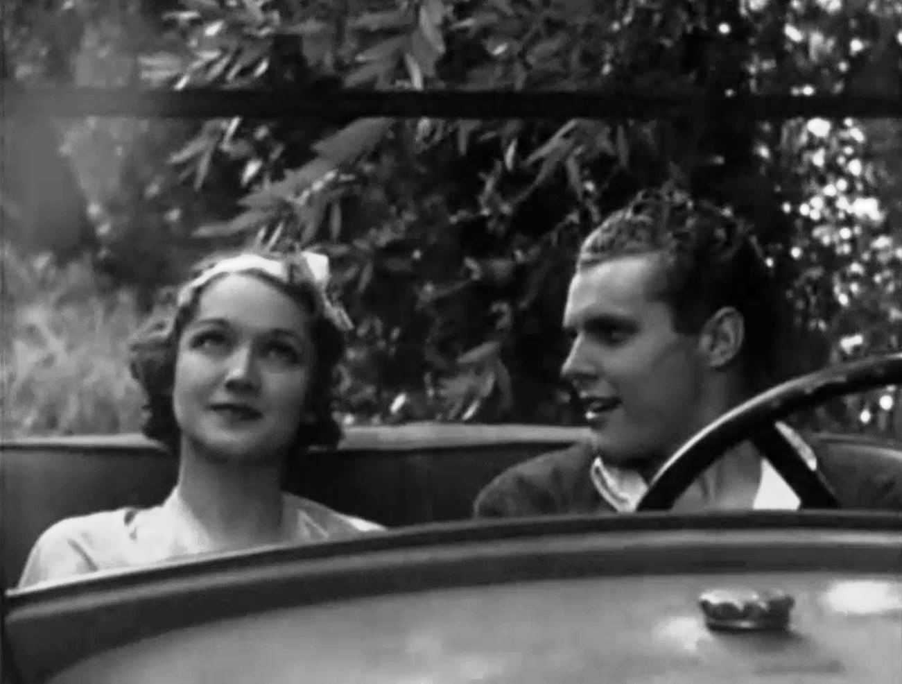 Low resolution screenshot of Helen Foster as Ann Dixon and Glen Boles as Tommy from the American public domain exploitation film The Road to Ruin (1934).